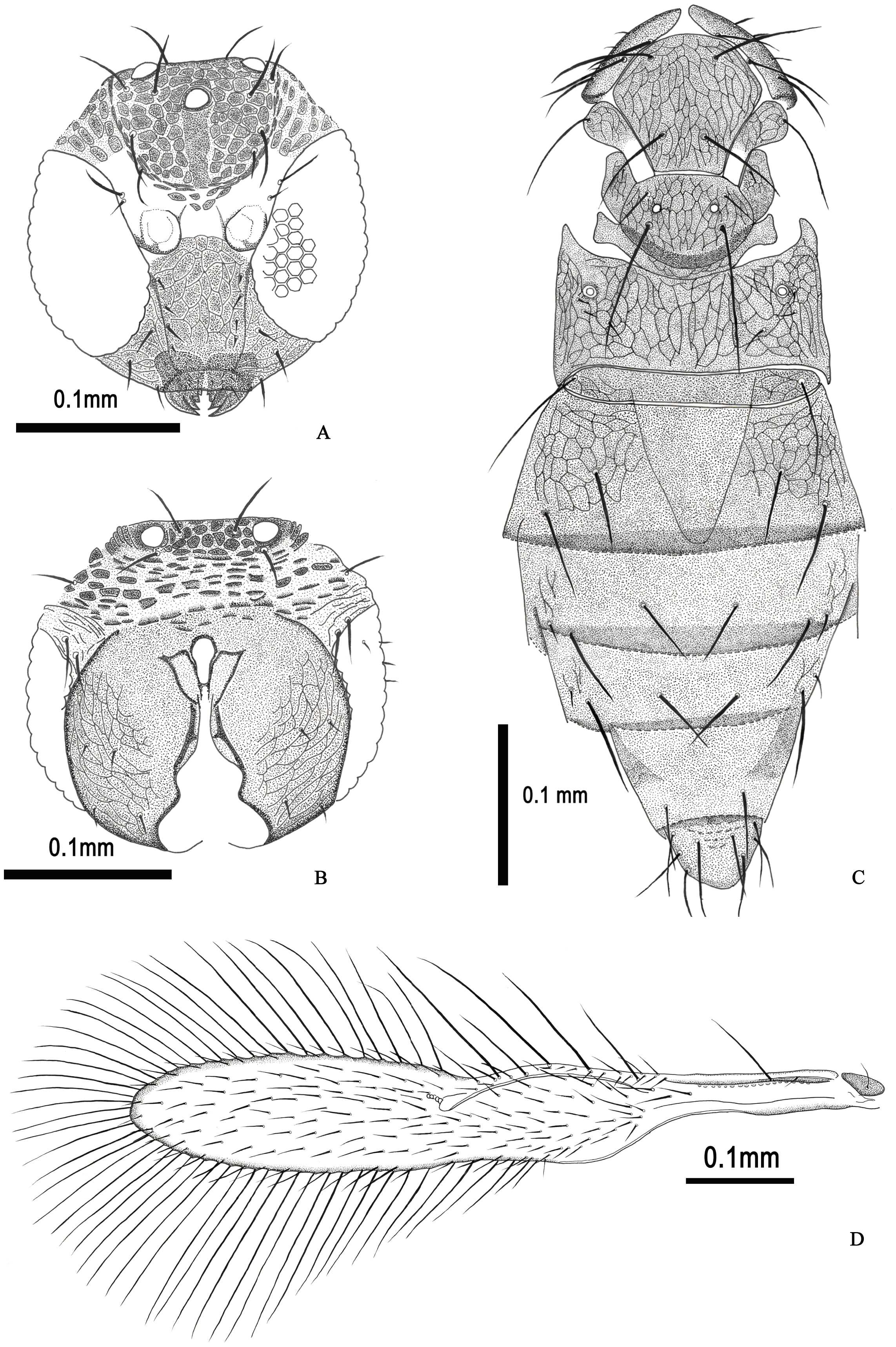 Hydrophylita emporos female. A. anterior head. B. posterior head. C. mesosoma and metasoma. D. fore wing.